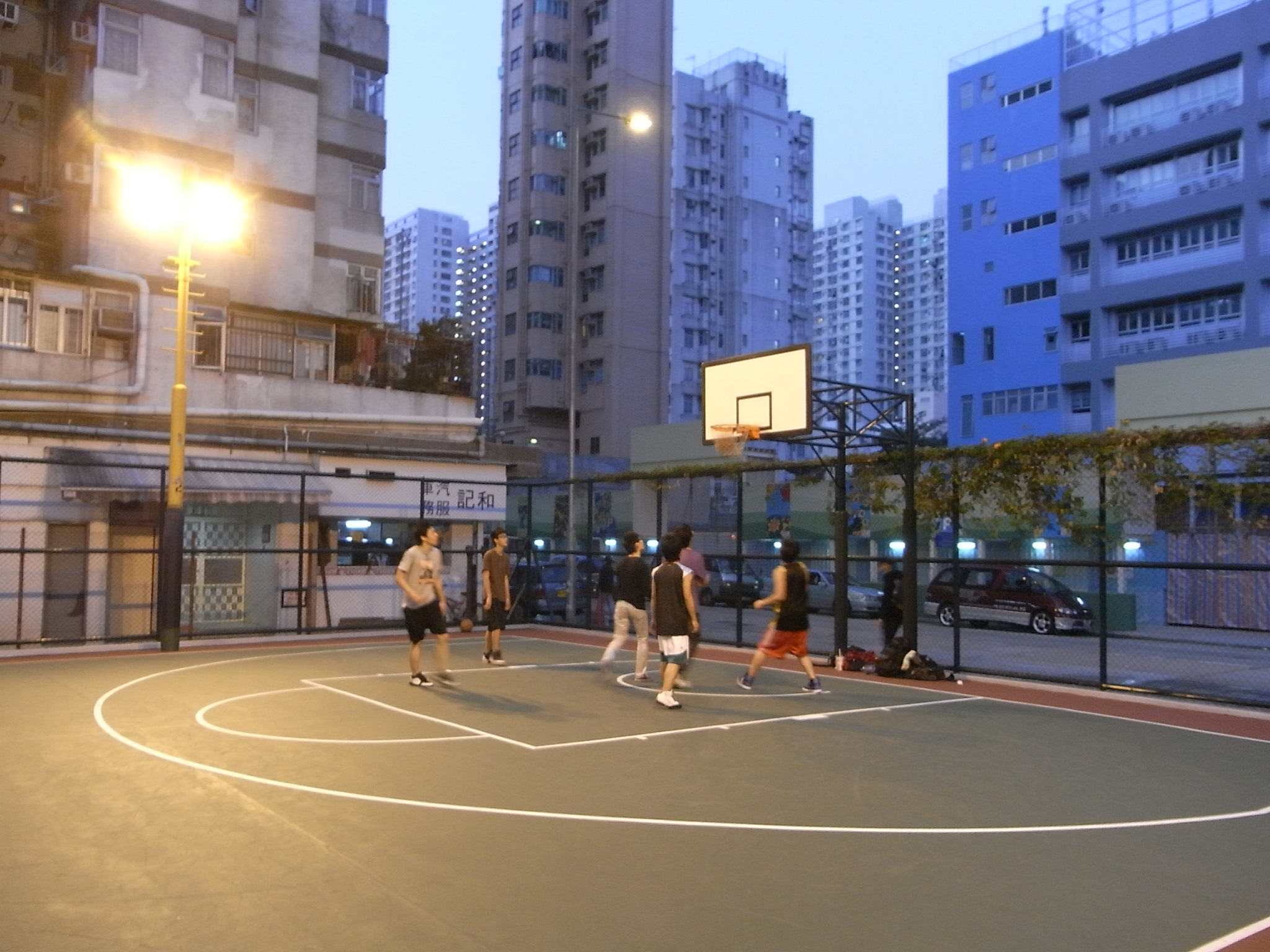 深水埗 順寧街遊樂場